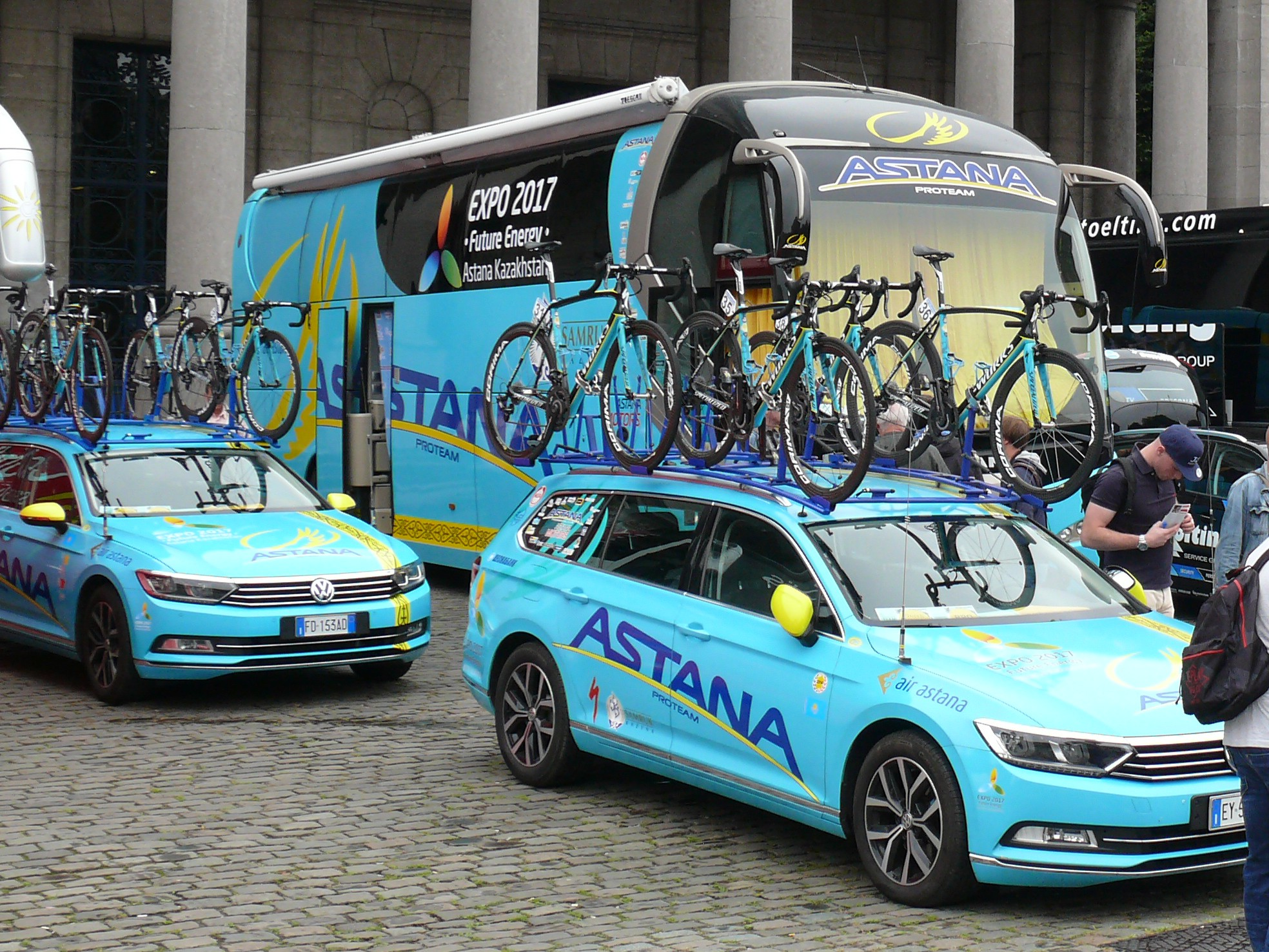 Brussels Cycling Classic 2016, 3.9.2016, Brussels, Parc du Cinquantenaire, presentation of the teams before the start, Astana Pro Team, team cars